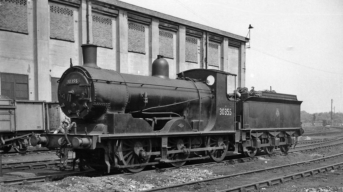 SR (ex-LSW) 0-6-0 at Feltham Locomotive Depot. Ex-LSW Drummond '700' class 0-6-0 No. 30355 was built 6/1897 and withdrawn 2/61. (Cf. TQ1173 : SR (ex-LB&SC) 0-6-0 at Feltham Locomotive Depot).